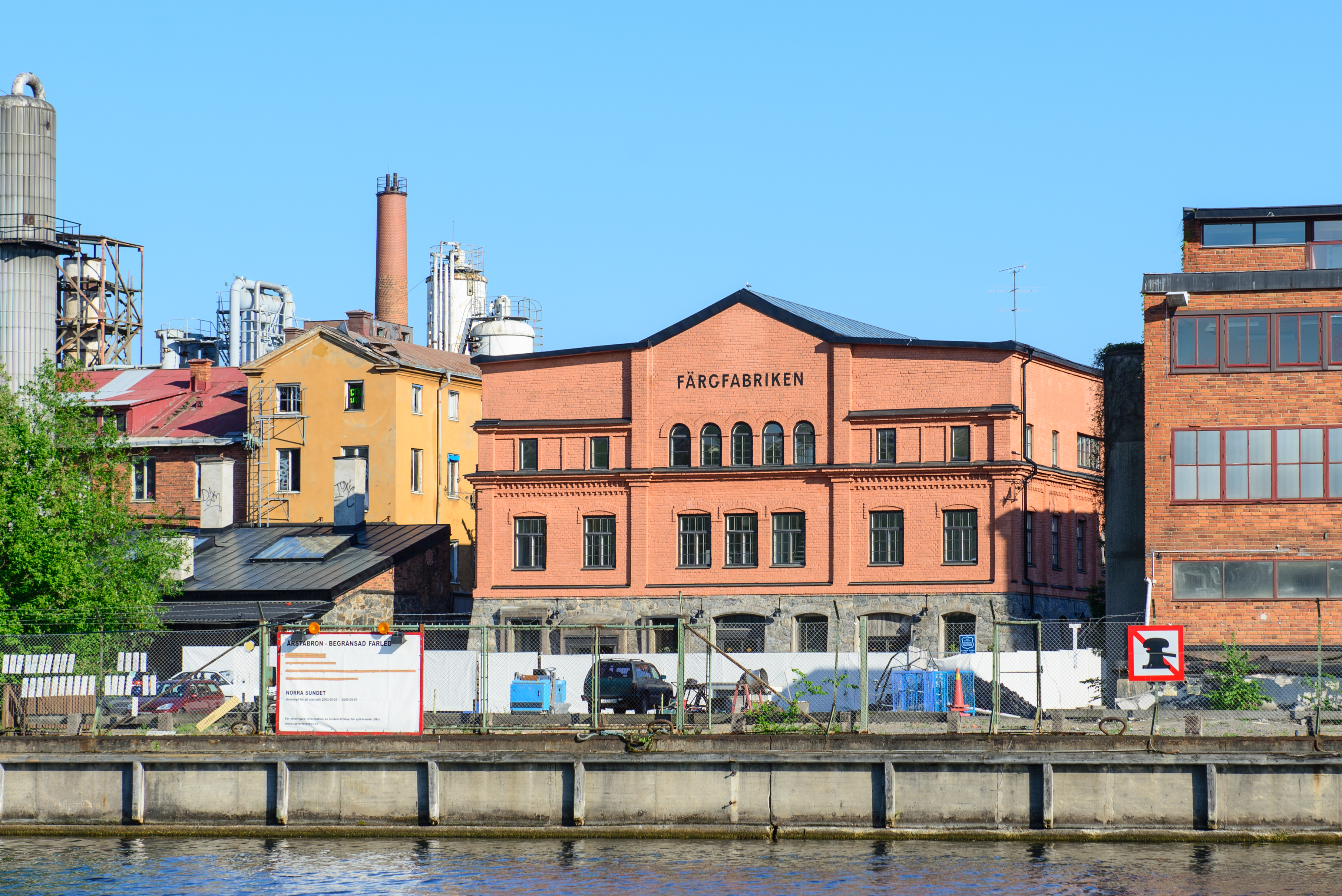 Färgfabriken, Liljeholmen, Stockholm. Färgfabriken is an exhibition space and experimental platform for art and architecture